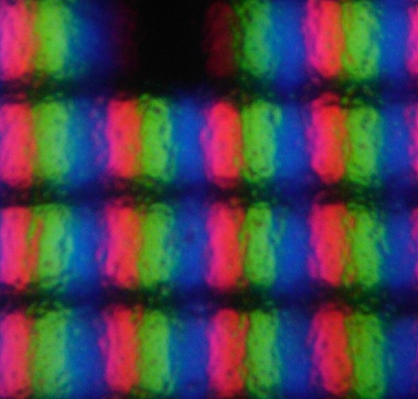 Subpixel of an matte active-matrix liquid crystal display using twisted nematic cells (TN-LCD).